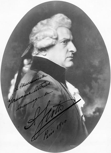 Italian opera singer Antonio Scotti (1866-1936).